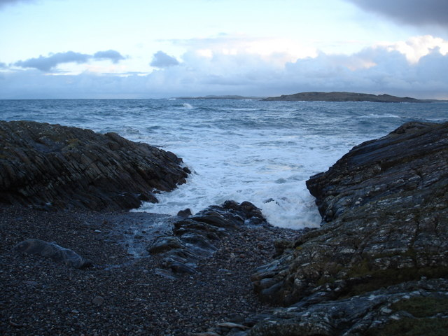 Across the Gunna Sound Unsurprising it is Gunna to be seen across the sound. Coll can be made out behind Gunna.